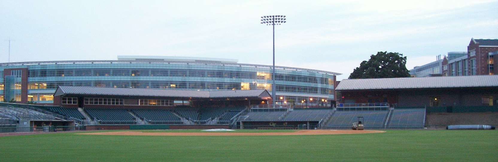 Description: The Georgia Institute of Technology Russ Chandler Stadium and the College of Computing's Klaus Advanced Computing Building Source: I, User:Excaliburhorn, took this picture in 2006